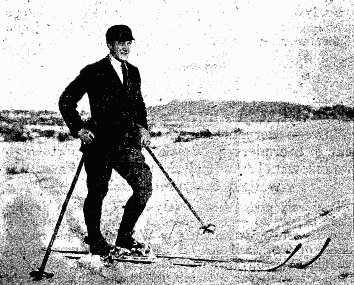 Polish cross country skier and ski jumper Andrzej Krzeptowski